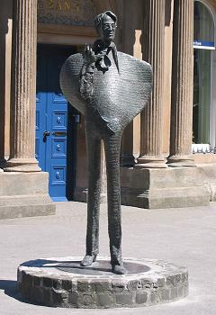 W. B. Yeats. An original photograph taken be me in June 2006